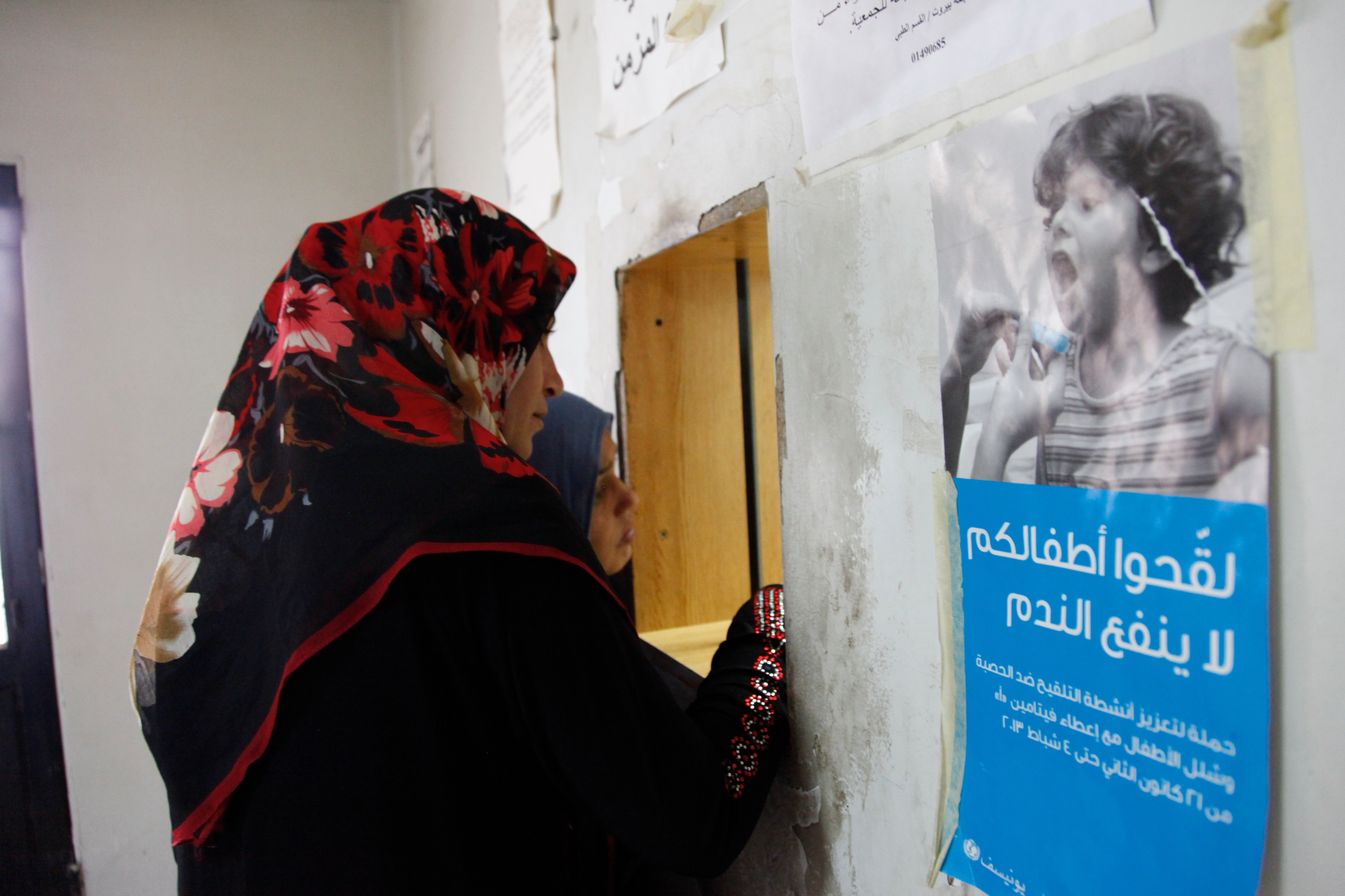 Two Syrian women wait to collect a prescription at a health clinic in Lebanon's Bekaa Valley. UK aid is supporting access to basic healthcare, such as medical check-ups, for thousands of Syrian refugees in Lebanon. To find out more about how the UK is responding to the humanitarian crisis in Syria and its neighbouring countries, please Picture: Russell Watkins/Department for International Development